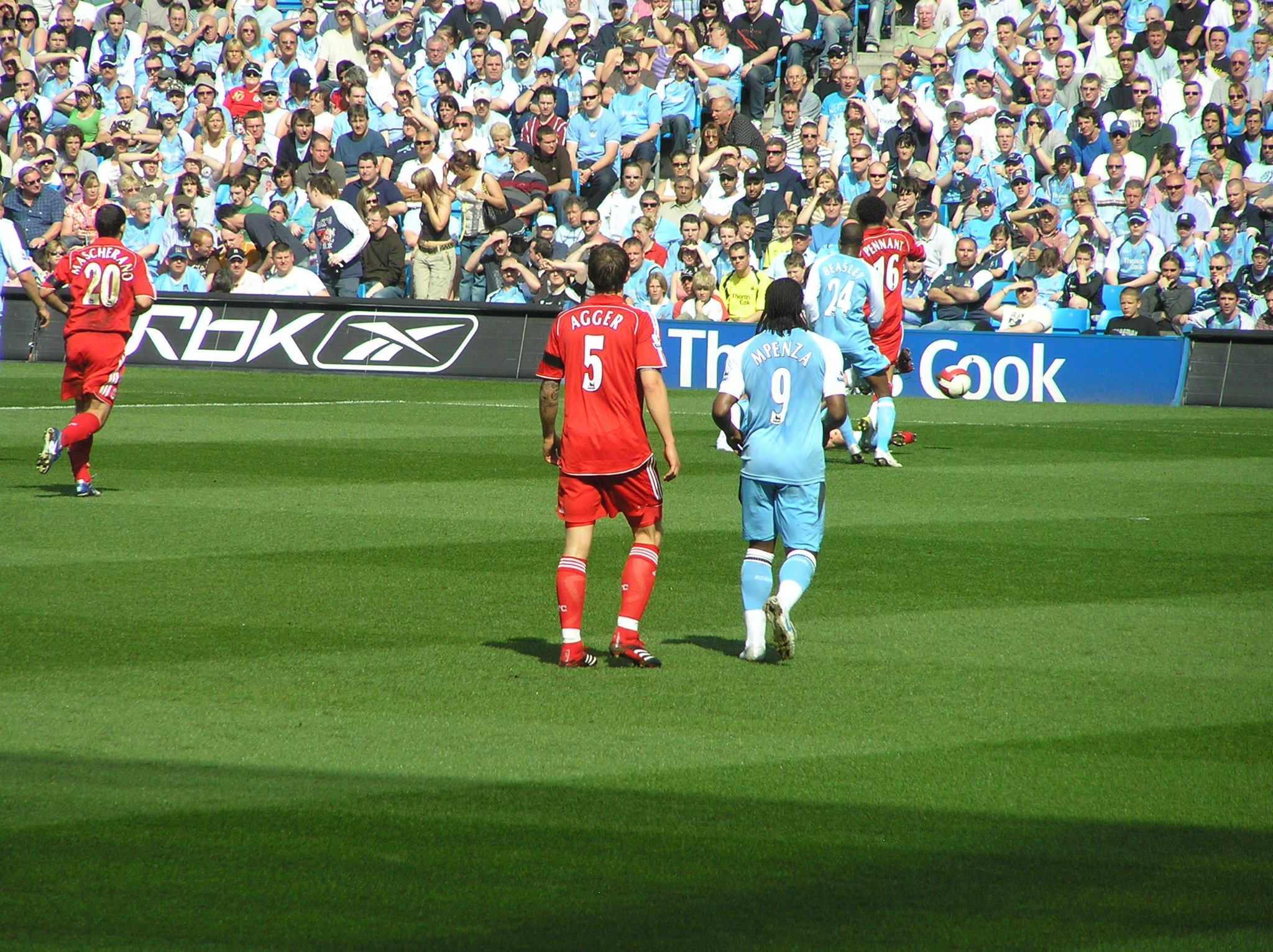 Daniel Agger in Manchester City v.s. LiverpoolFC.